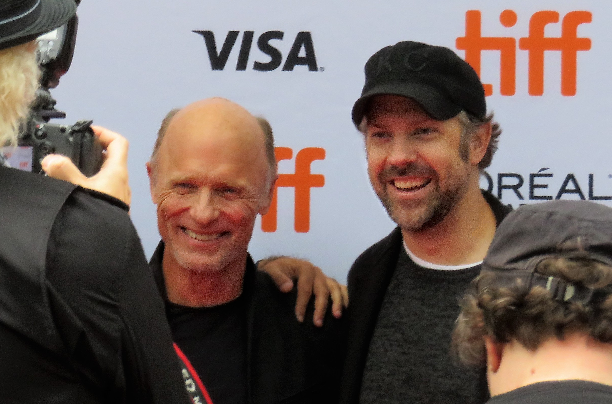 Ed Harris and Jason Sudeikis at the premiere of Kodachrome, 2017 Toronto Film Festival